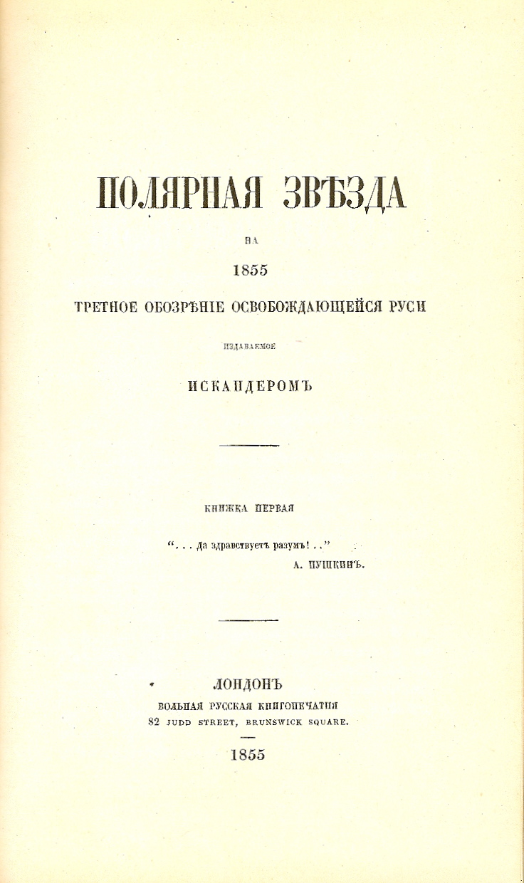 The title page of issue "Полярная звезда" ("Polar Star"), the exile-russian publication of Alexander Herzen and Nikolay Ogarev. London, 1855.